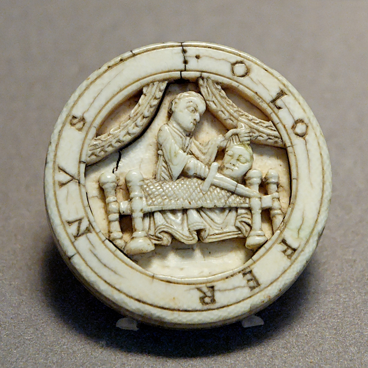 Judith and Holofernes, trictrac checker. Ivory, Western France, 12th century, found in Bayeux in 1838.